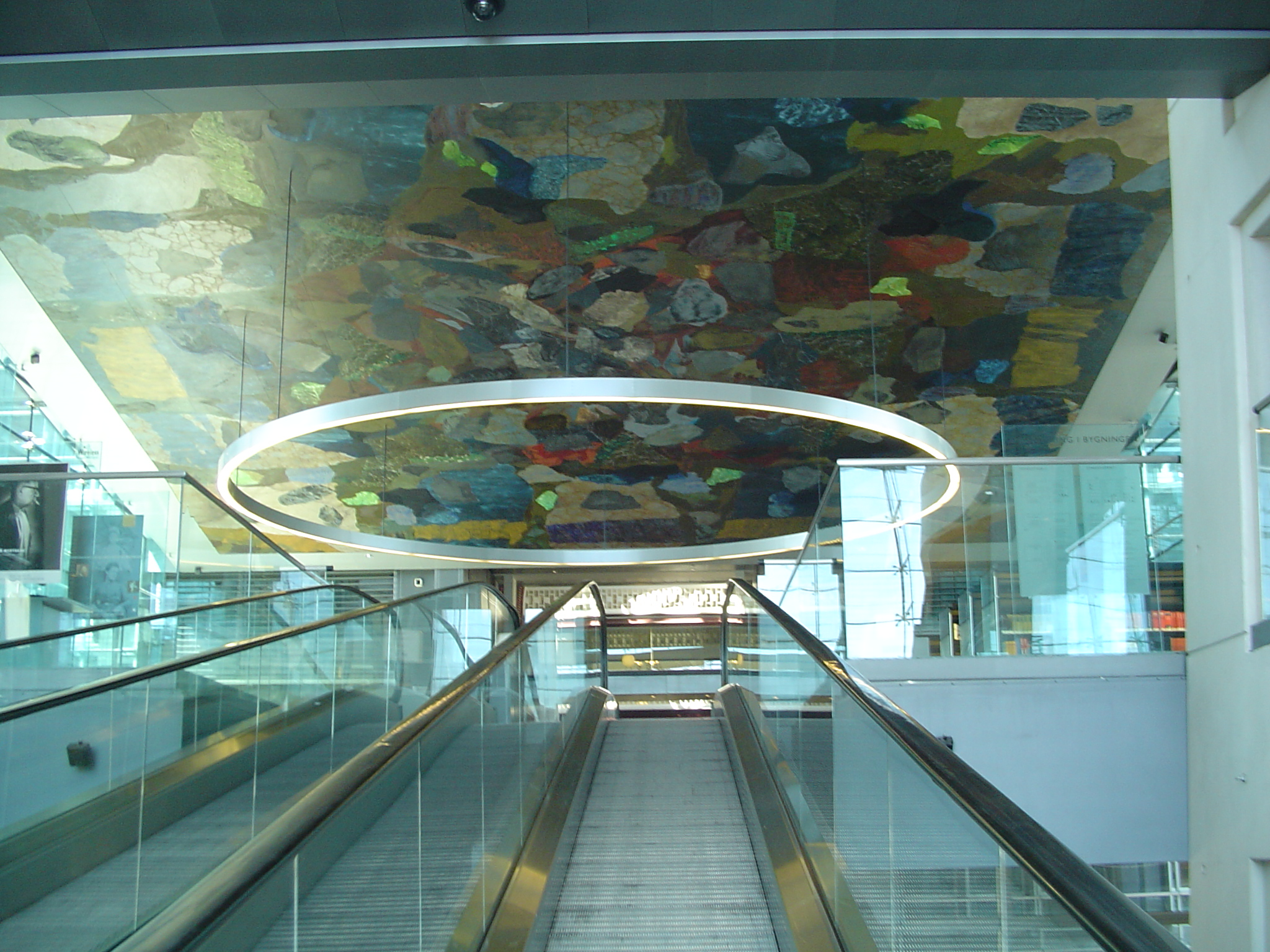 The Danish Royal Library. Taken by user:Thue in the sommer of 2005.